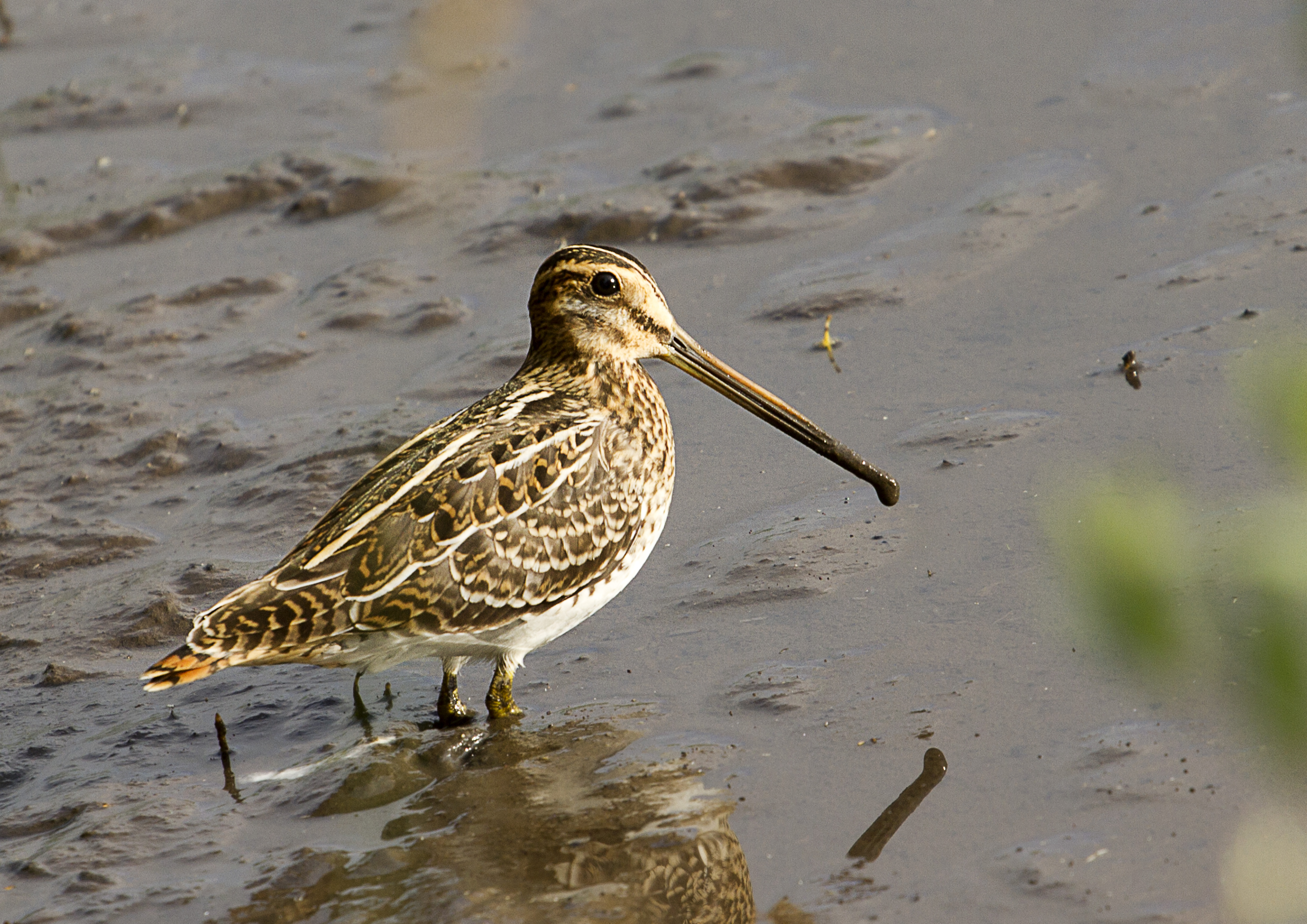 Snipe Gallinago gallinago, Norfolk, England.